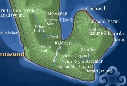 The inlet Viðvík at the east coast of Viðoy, Faroe Islands